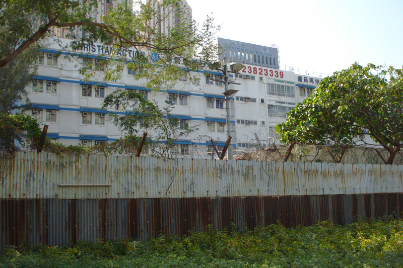 New Horizan Building (新秀大廈), Former Gary Block of Royal Air Force, Hong Kong.